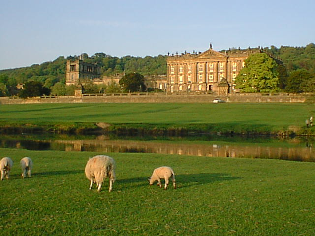 Chatsworth House